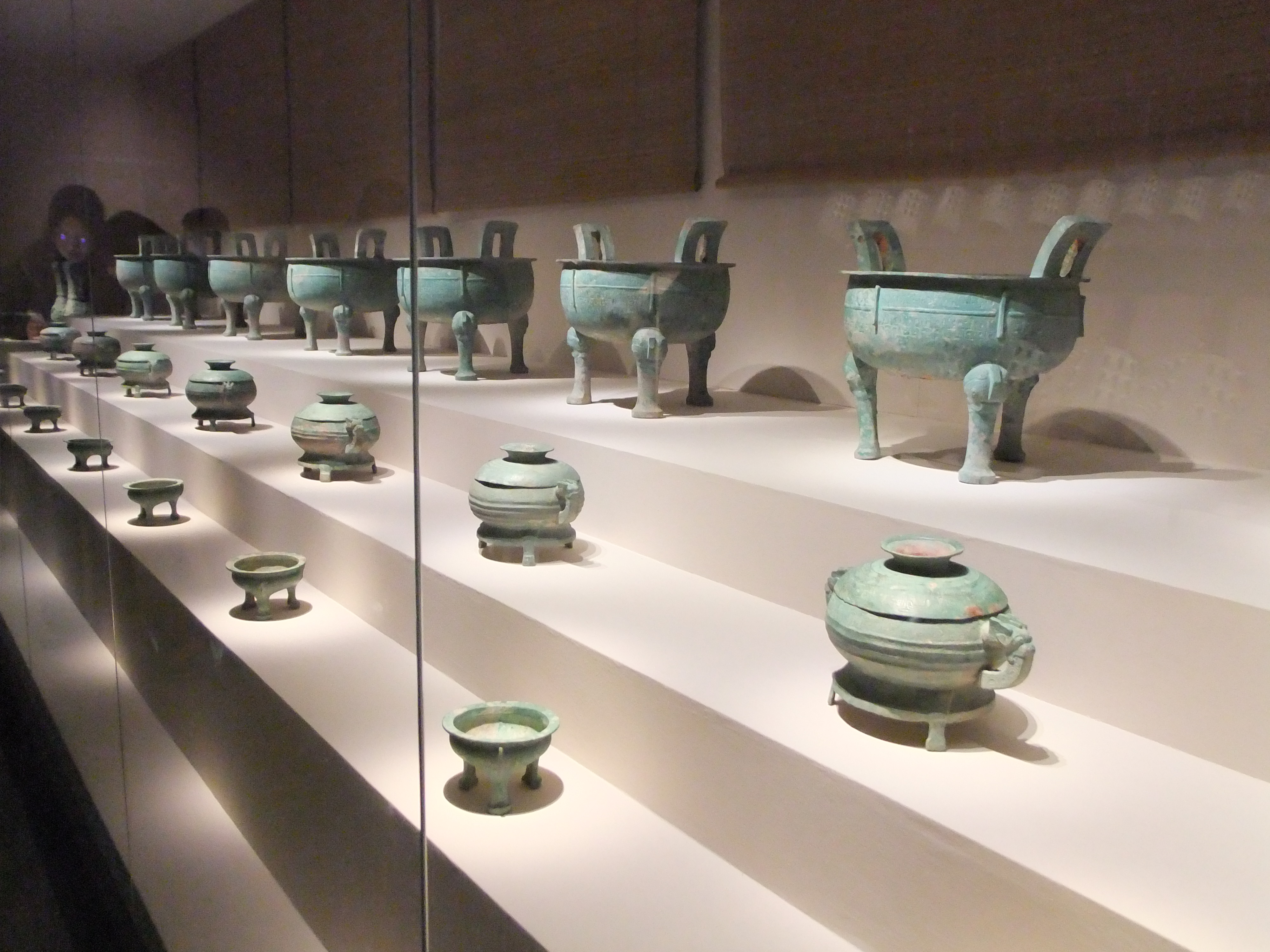 The Nine Ding and Eight Gui of Zhengguogong, Spring and Autumn period (770-476 B.C.), excavated in 1996 in Xinzheng, Henan. They are preserved in Henan Museum. Photo taken in February 2018 in Hunan Museum Exhibition, Changsha, Hunan, China. 中文（中国大陆）: 郑国公的九鼎八簋，春秋时期，1996年出土于河南省新郑市郑韩故城。现存于河南博物院。本照片2018年2月拍摄于湖南省博物馆的《春秋战国文物大联展》。